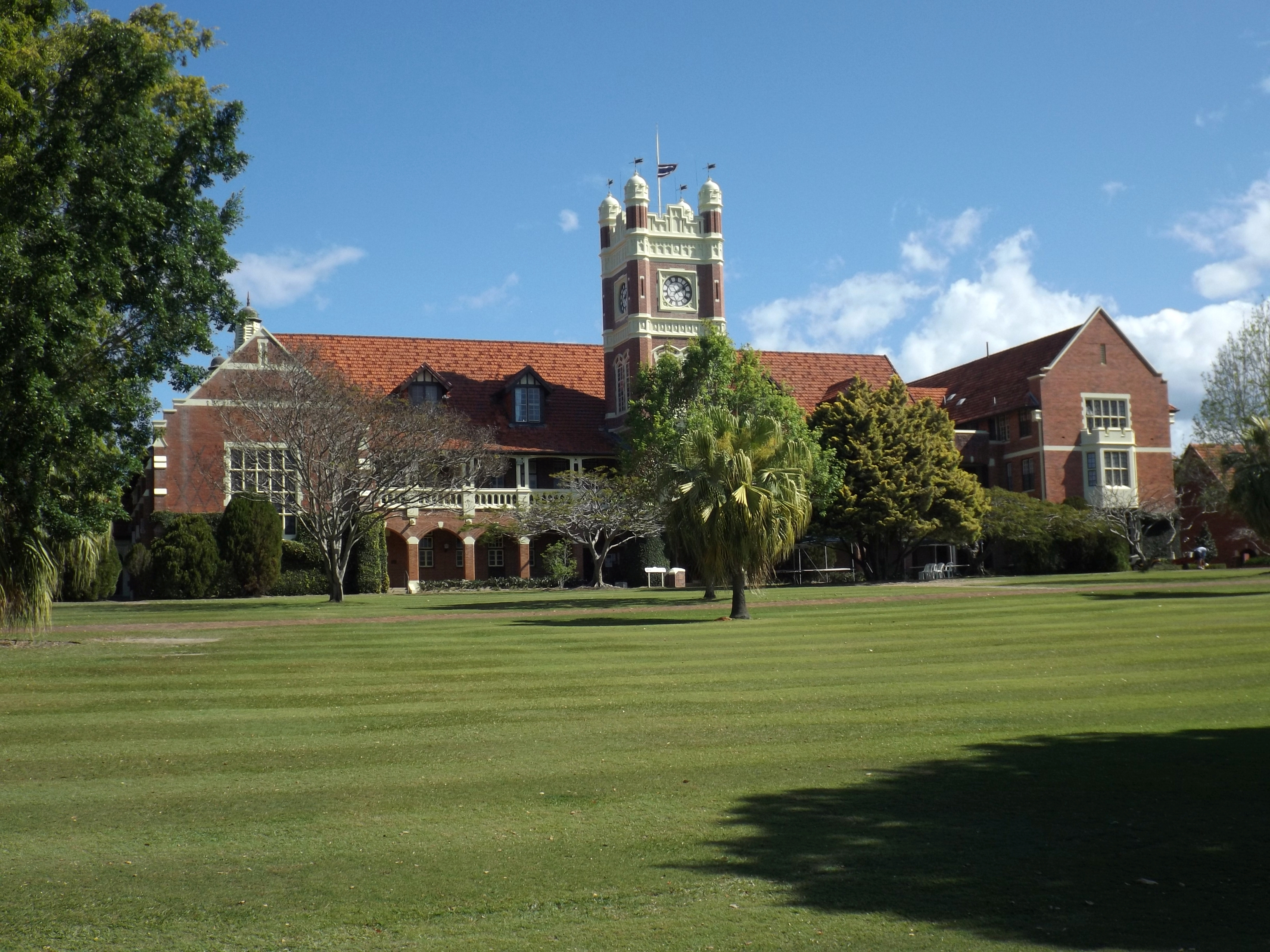 Photo of the Clock Tower Building at The Southport School in Southport, Gold Coast, Queensland, Australia.